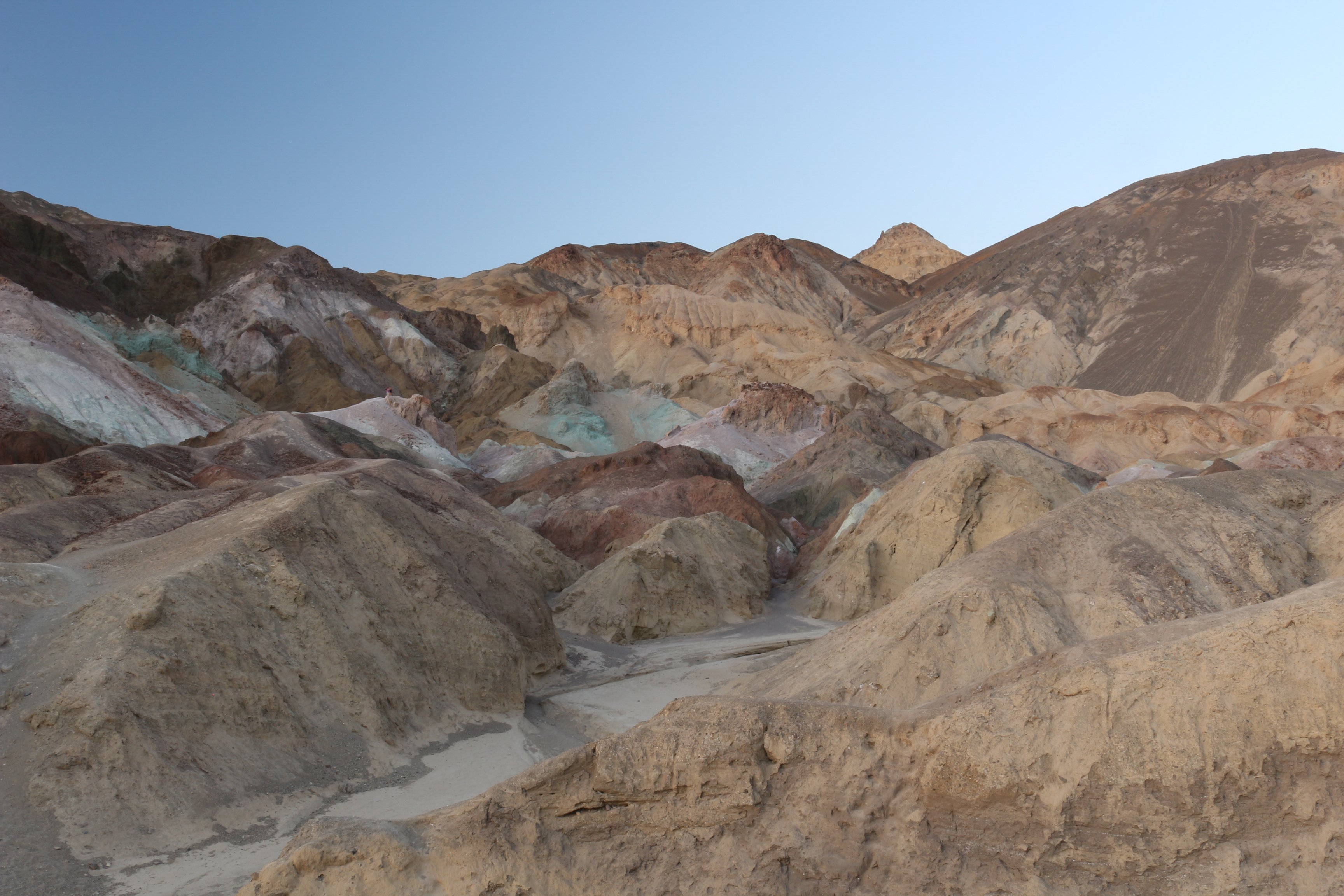 California, Death Valley National Park, Artist's Palette